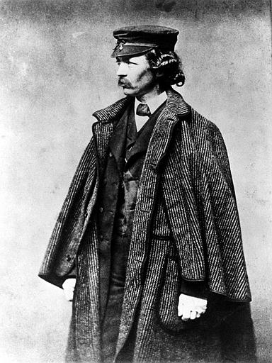 Photo take of Frederick Law Olmsted in 1857. Marking the beginning of his position as superintendent and landscape designer of Central Park.